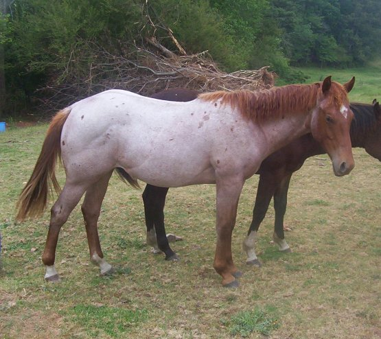 Chestnut roan with Bend-Or spots